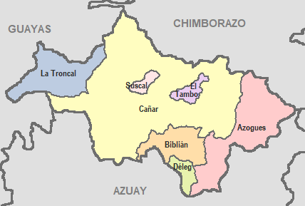 Cantons of Cañar